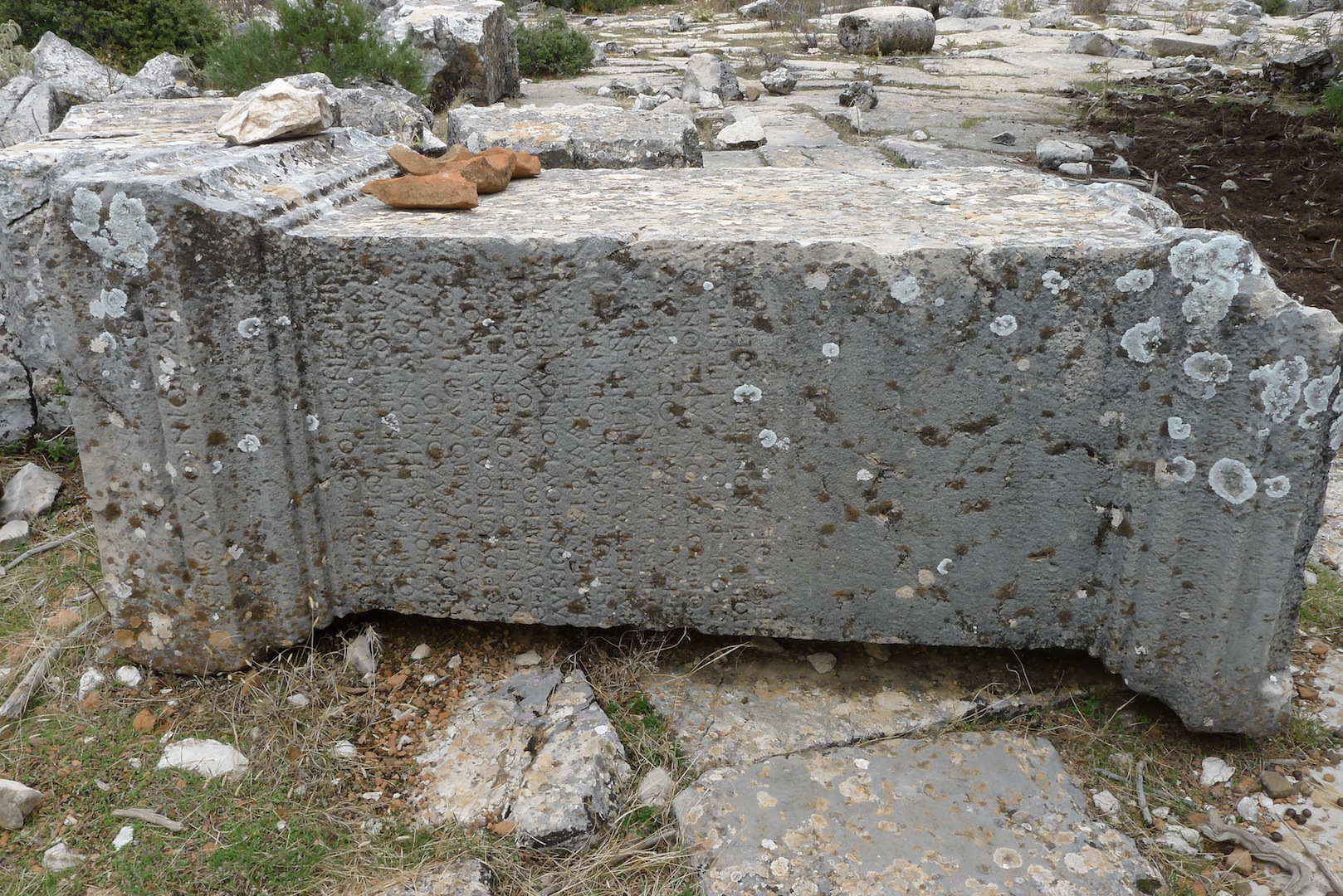 Inscripts of Diogenes, Oionoanda